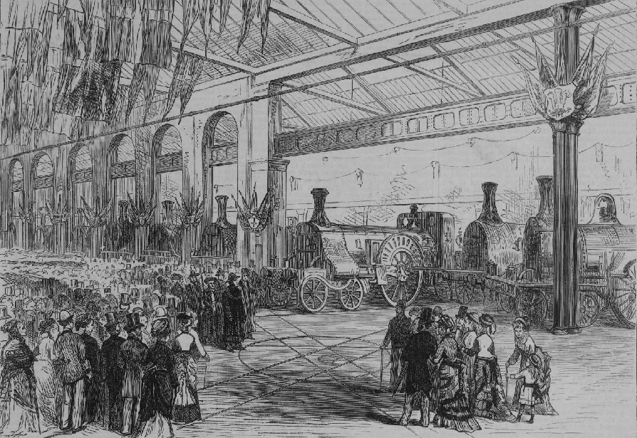 The Exhibition of the Locomotives at the Jubilee of the Stockton and Darlington Railway